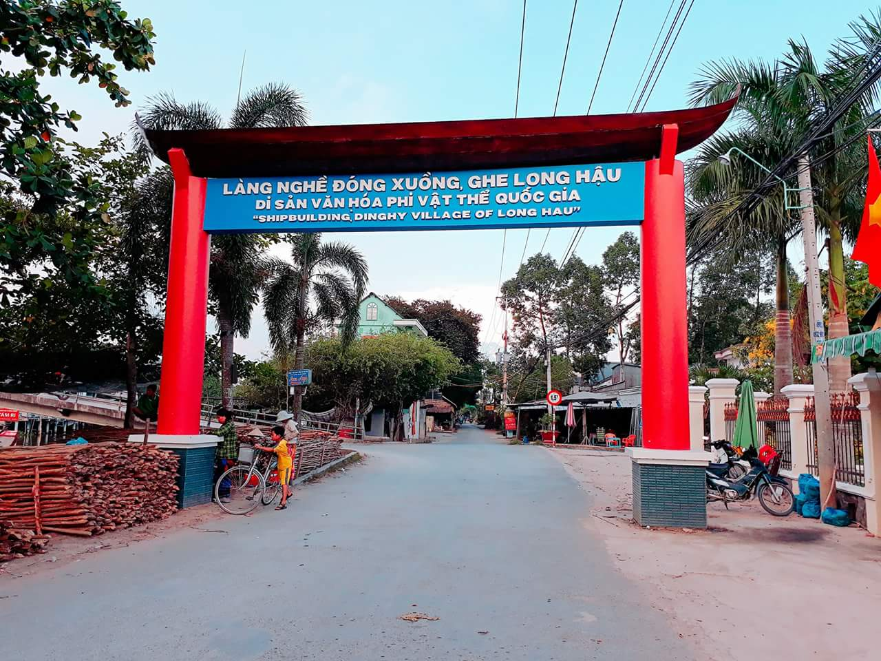 Village boat, boat Long Hau